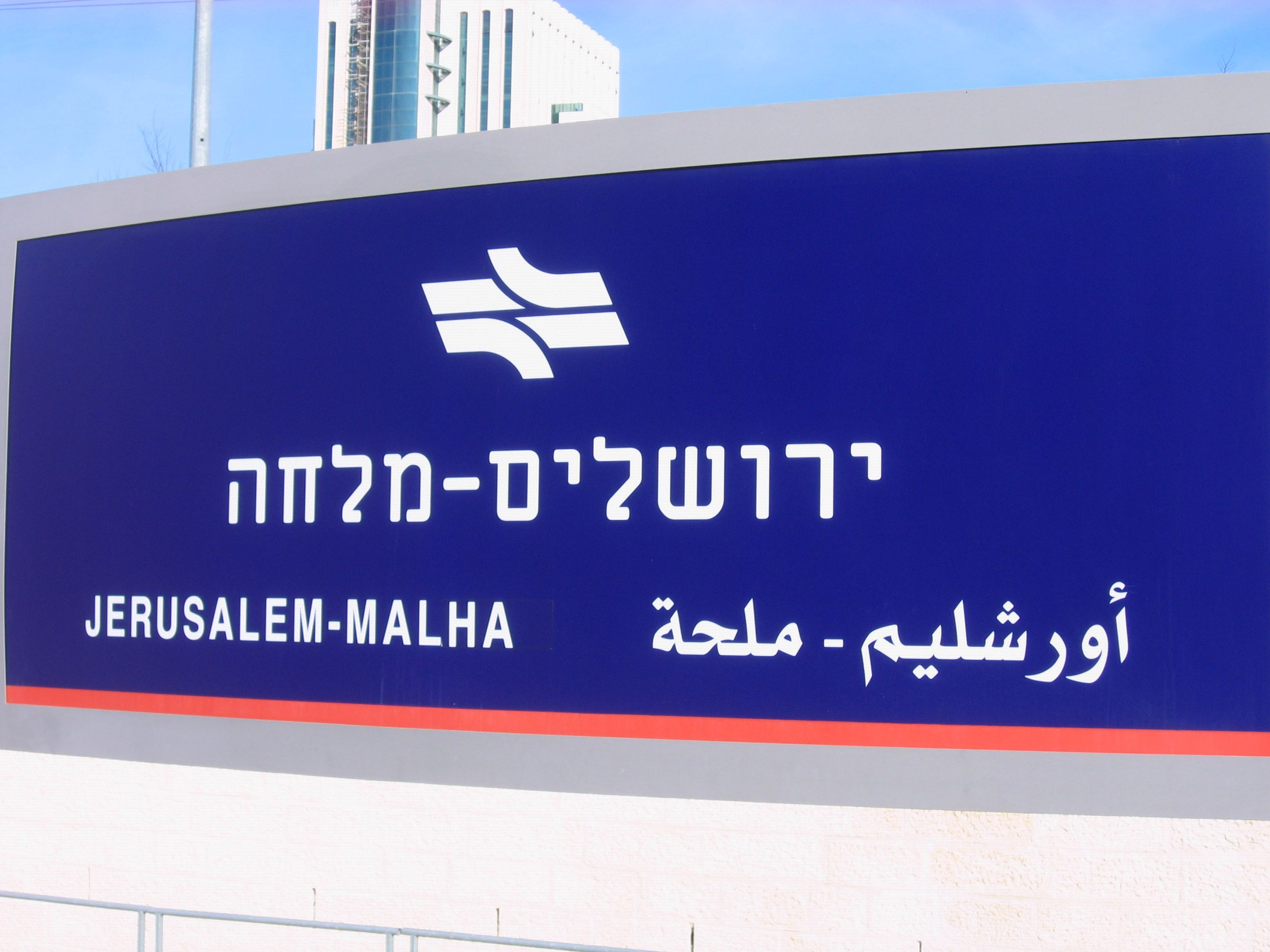 Railwaystation of Jerusalem-Malha: Station-sign